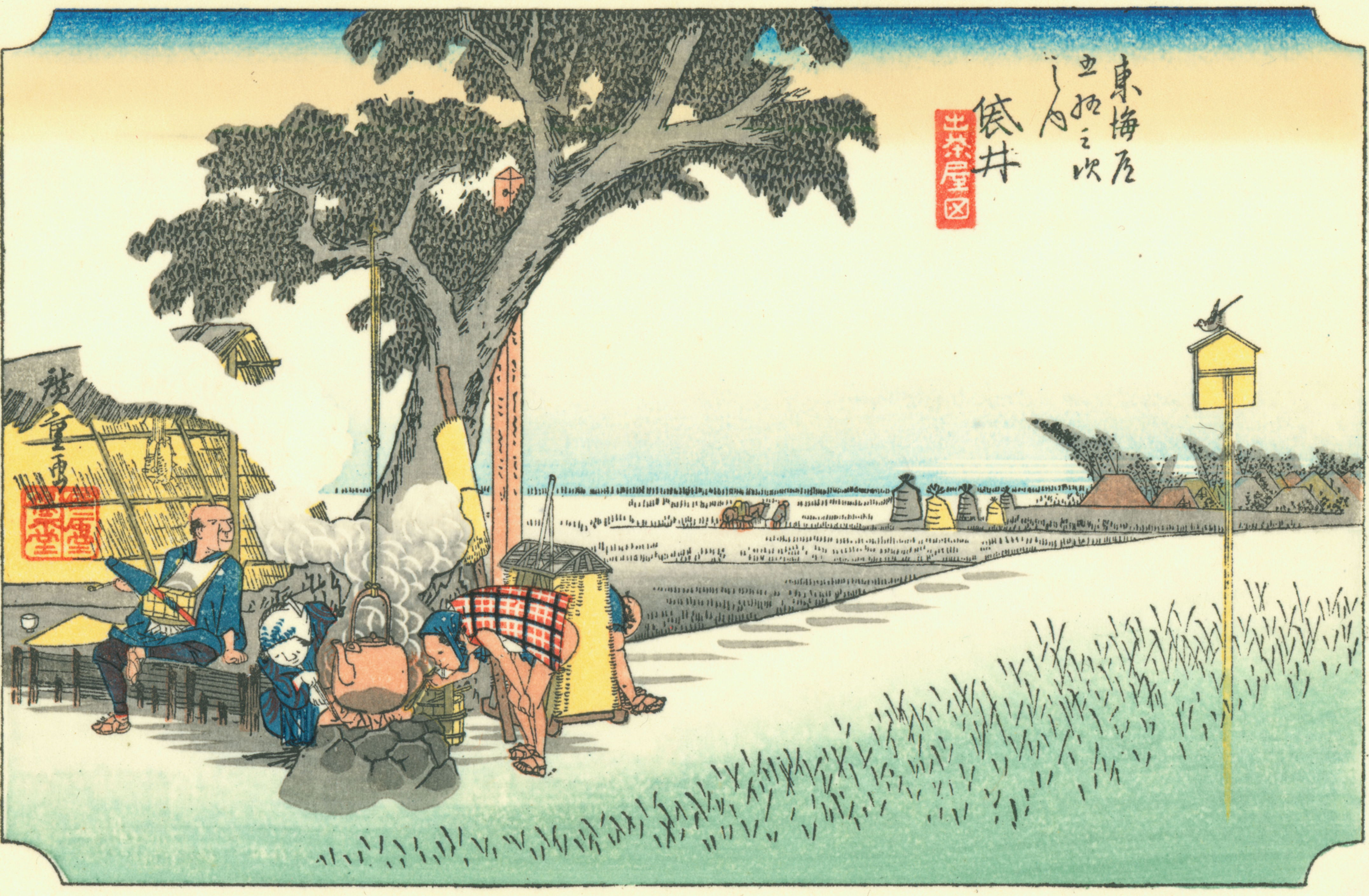 wood-block print, reproduction from a miniature edition by Takamizawa, Japan Title: Fukuroi